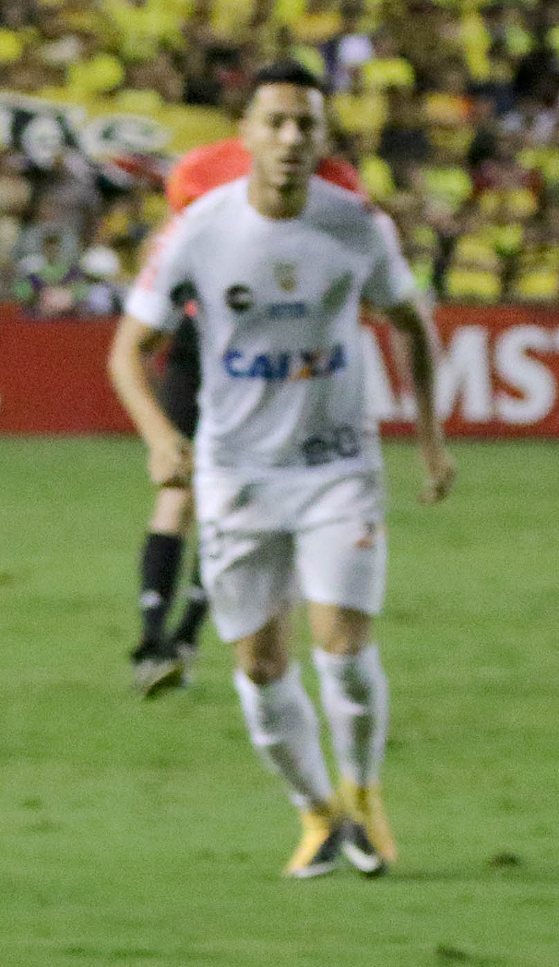 Guayaquil, 13 de septiembre del 2017 (Andes).-En el estadio Monumental Barcelona de Ecuador enfrenta al Santos de Brasil en partido de ida por cuartos de final de la Copa LibertadoresFoto:Andes/César Muñoz